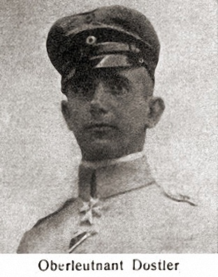 prussain lieutenant Eduard von Dostler (WWI)